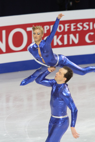 Tatiana Volosozhar and Stanislav Morozov at the 2010 European Figure Skating Championships.